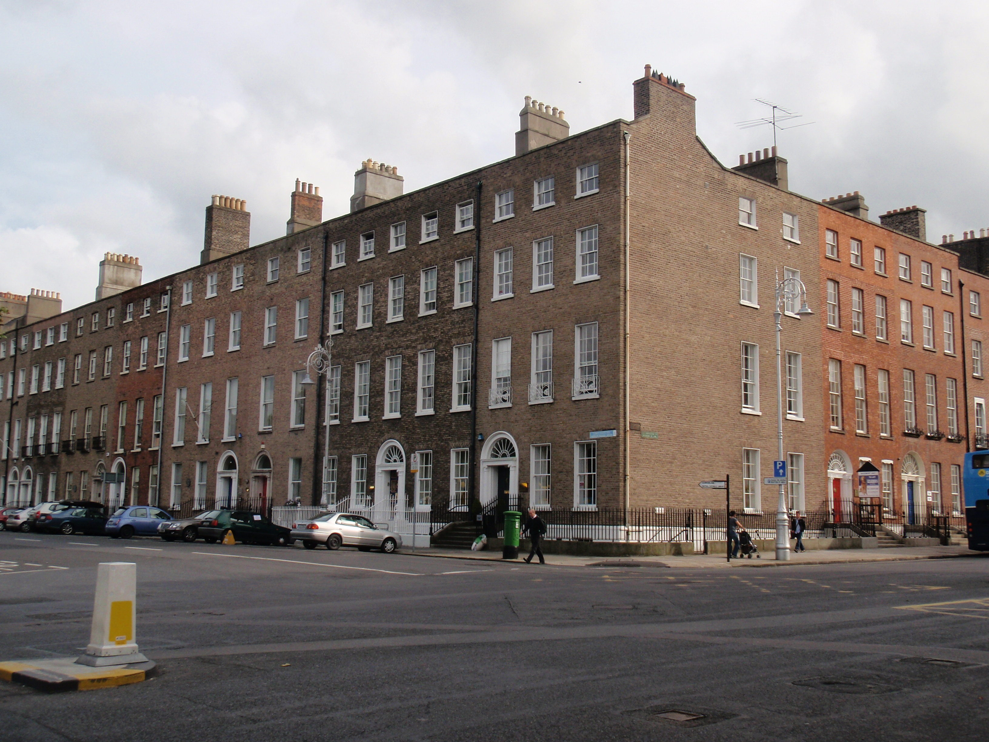 Merrion Square, Dublin, Ireland